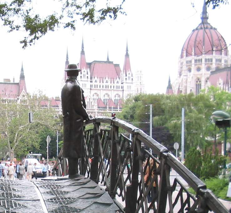 (Imre Nagy, statue at Vértanúk tere (Martyrs' square), Budapest, facing the Parliament building. Picture taken by myself, ie. public domain Dosiero:Imre Nagy Датотека:Imre Nagy